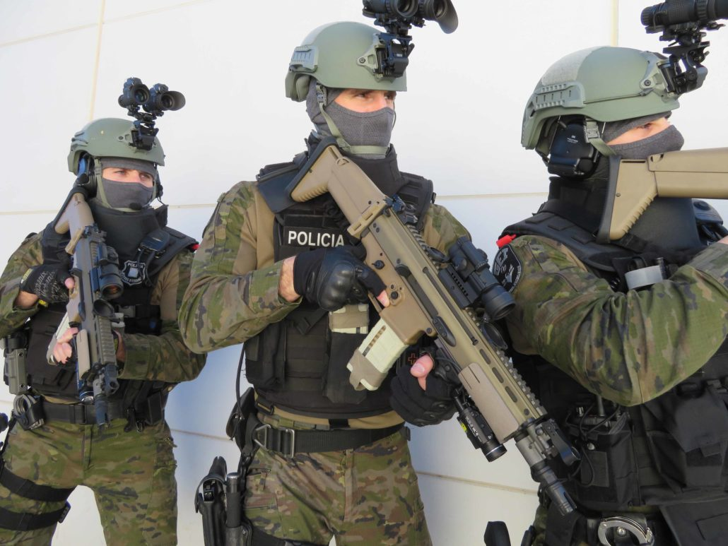 Police of catalonia